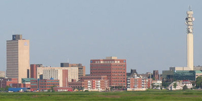 An edited version of File:MonctonSkyline.jpg. Edited by myself in Photoshop CS2